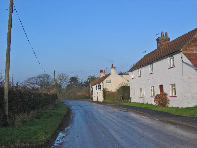 Great Kelk, East Riding of Yorkshire, England.View north along the road through Great Kelk.